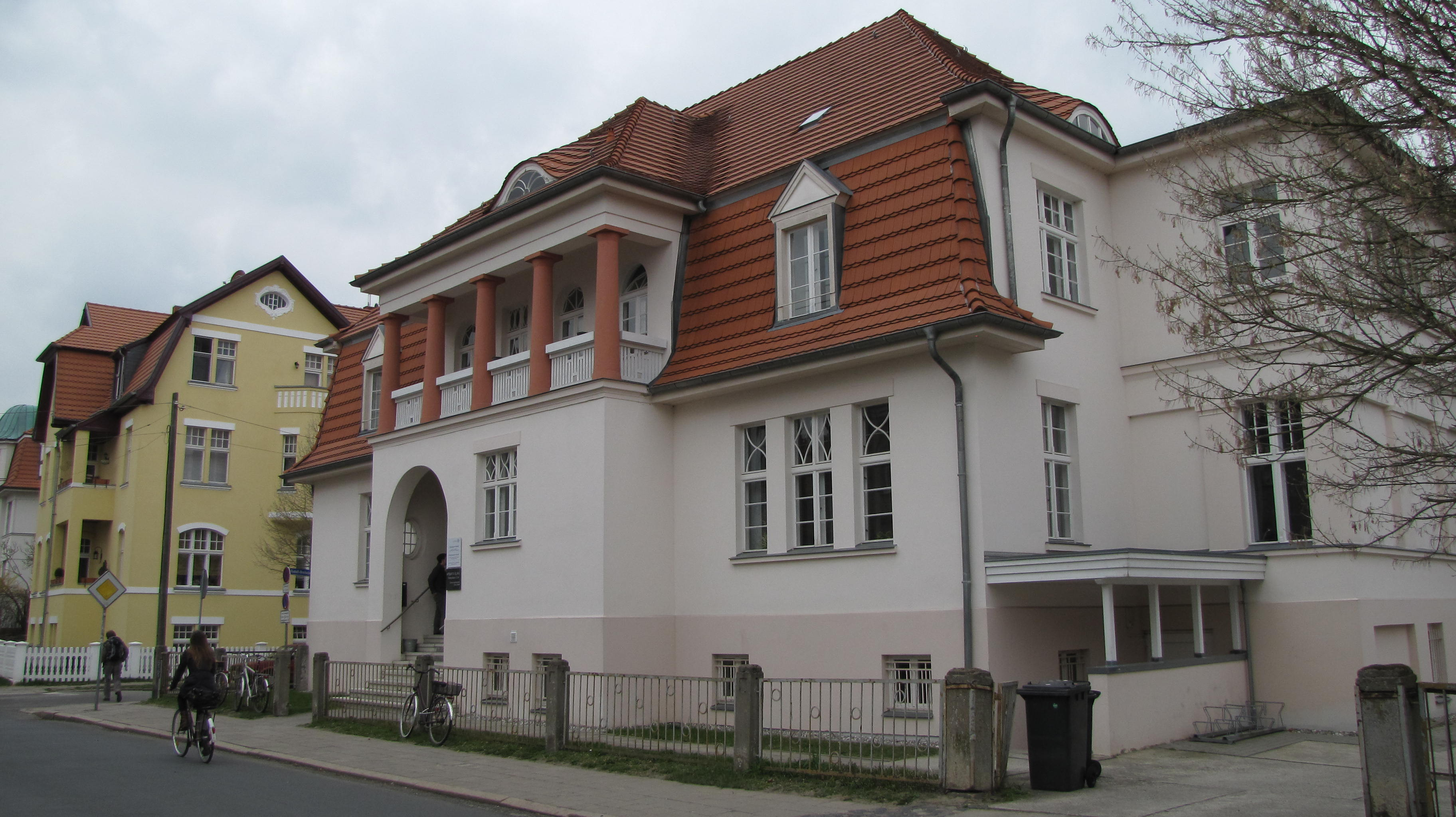 Villa, Rudolf-Petershagen-Allee 1 in Greifswald, used by University institutes